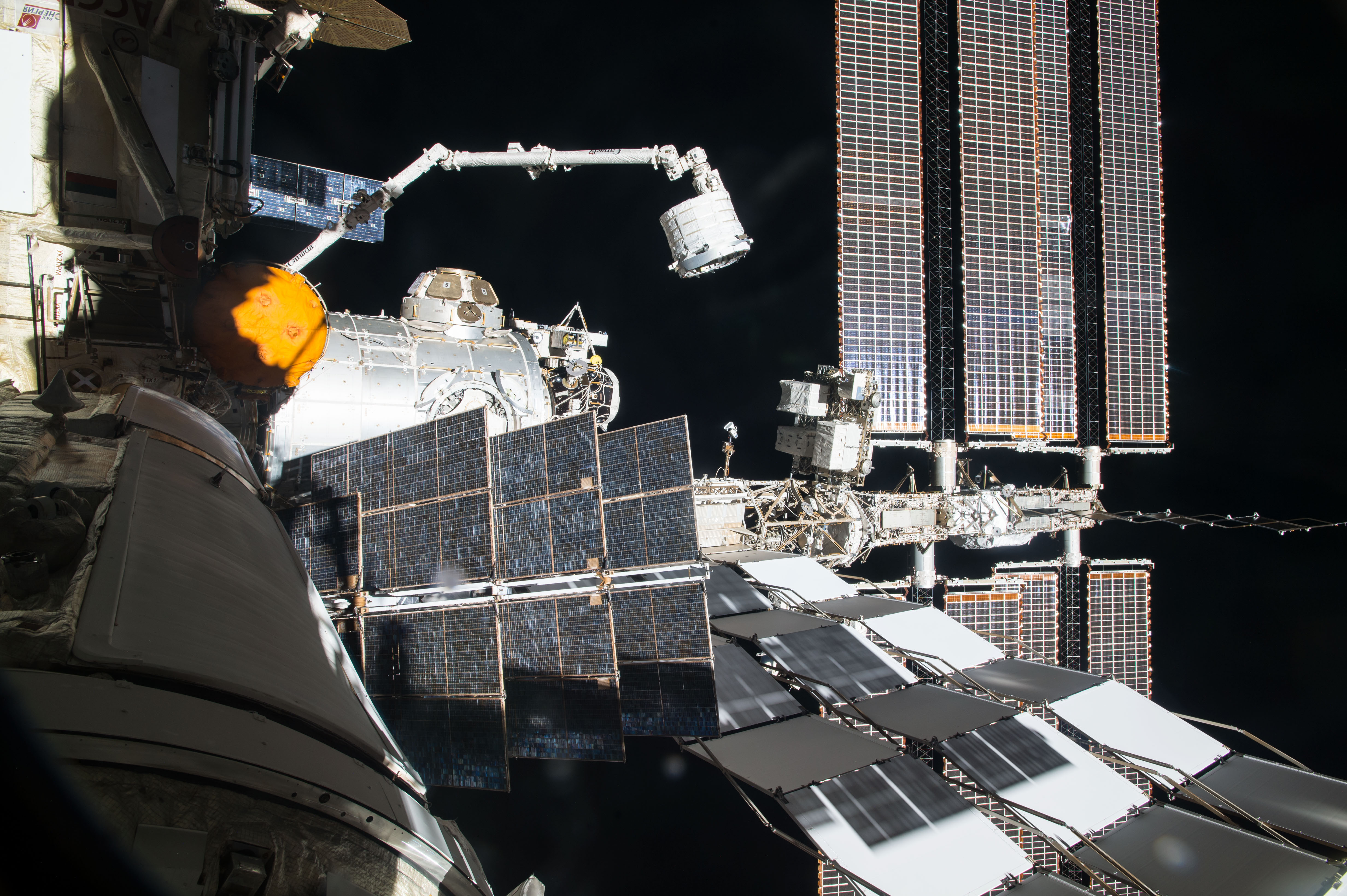 The Bigelow Expandable Activity Module (BEAM) was installed to the International Space Station on April 16, 2016 at 5:36 a.m. EDT. Following extraction from SpaceX's Dragon cargo craft using the Canadarm2 robotic arm, ground controllers installed the expandable module to the aft port of Tranquility. Astronauts will enter BEAM on an occasional basis to conduct tests to validate the module’s overall performance and the capability of expandable habitats. NASA is investigating concepts for habitats that can keep astronauts healthy during space exploration. Expandable habitats are one such concept under consideration – they require less payload volume on the rocket than traditional rigid structures, and expand after being deployed in space to provide additional room for astronauts to live and work inside.